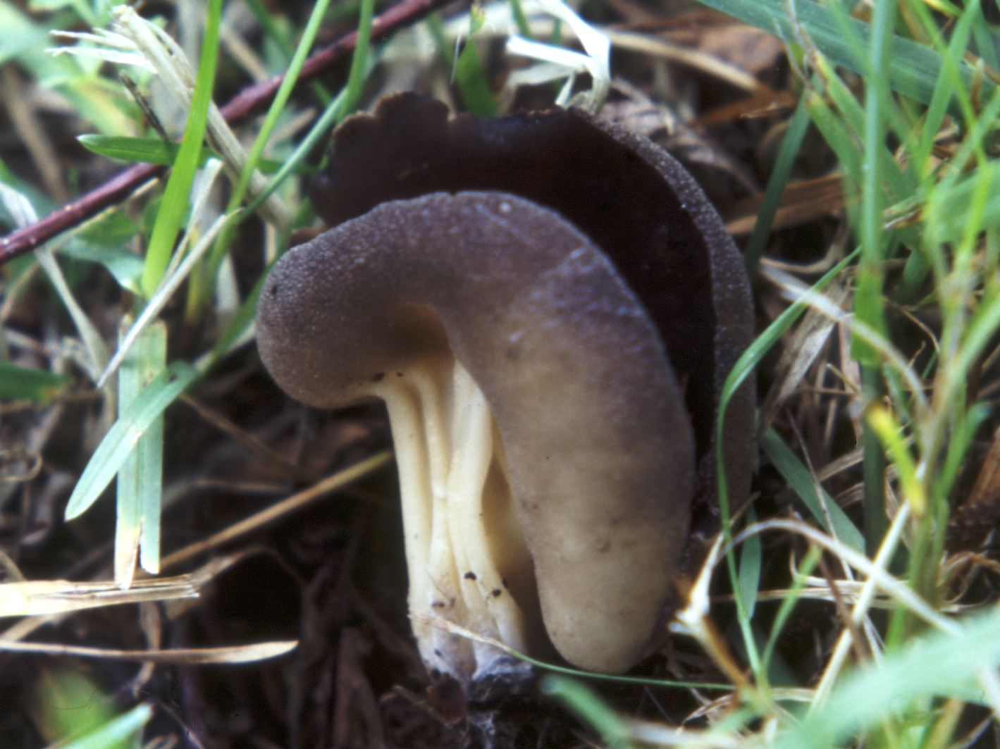 Helvella queletii Idkerberget, Dalarna, Sweden For more information about this, see the observation page at Mushroom Observer.